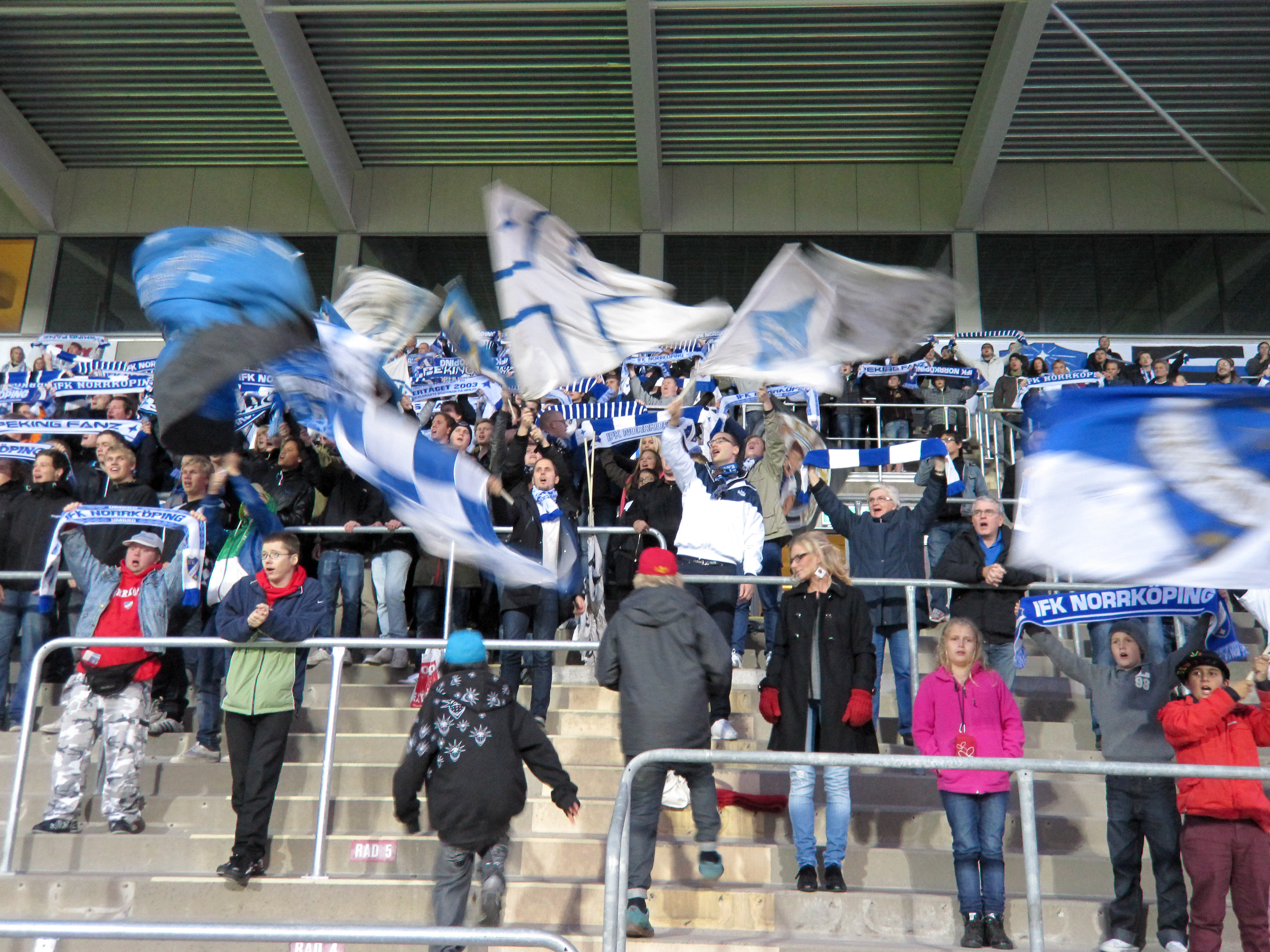 Supporters of IFK Norrköpings official supporter club Peking Fanz at Nya Parken arena under matchen IFK Norrköping-Landskrona BoIS (0-3) i Superettan.